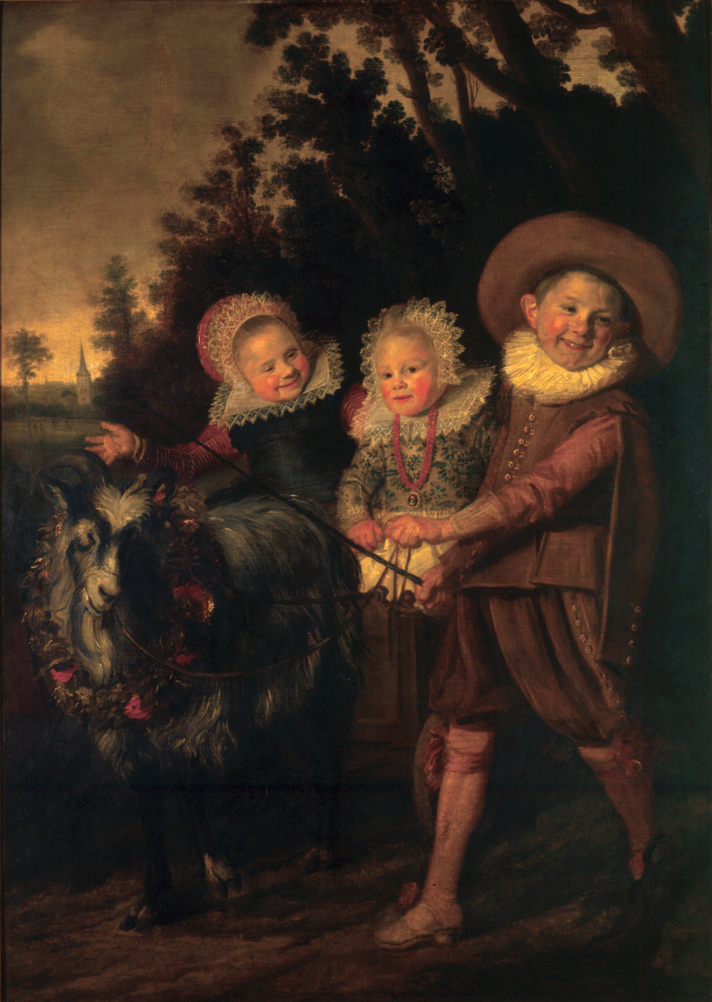 Right fragment of a larger painting. See File:Family Portrait in a Landscape WGA.jpg for the left fragment.